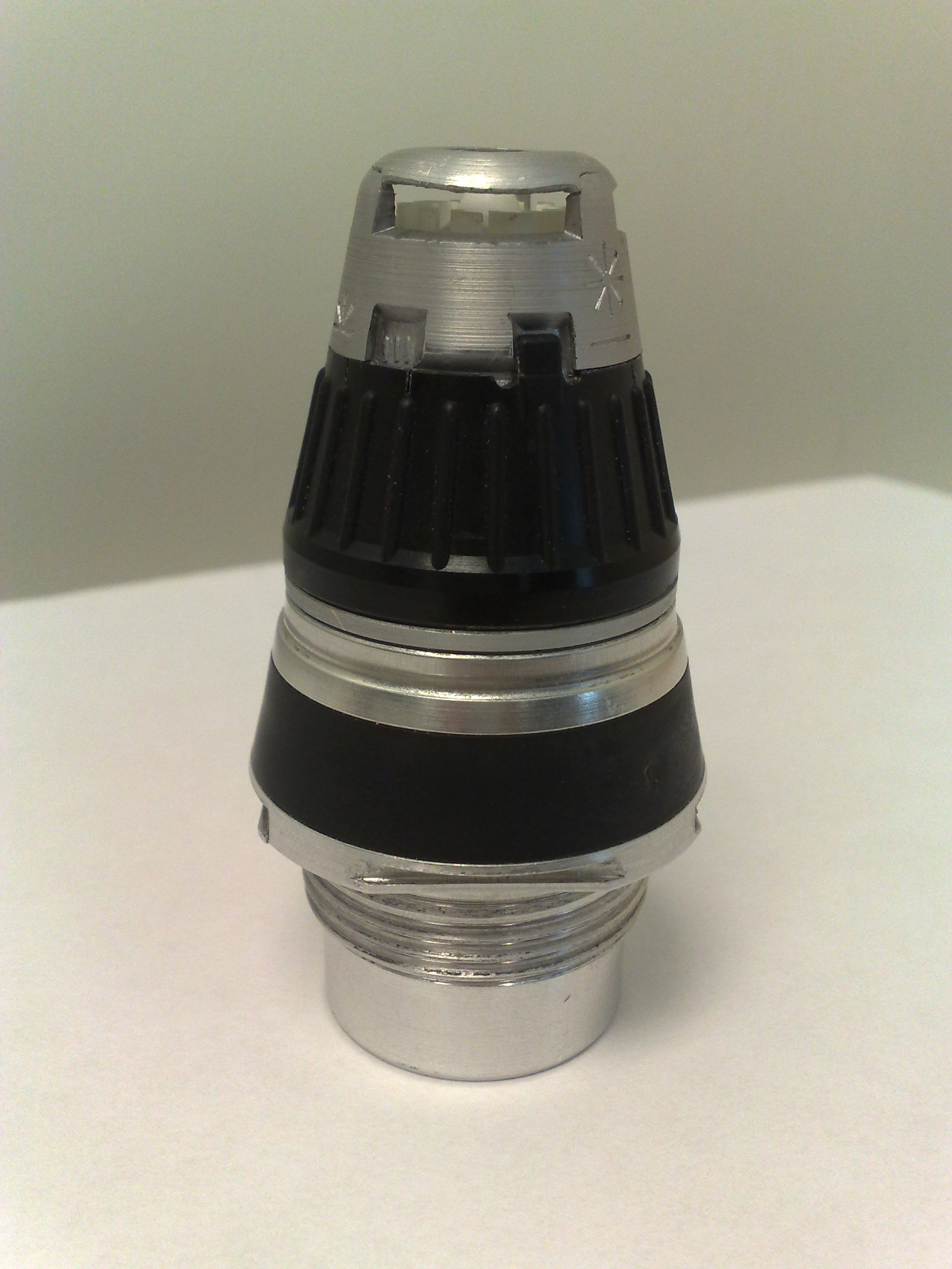 A 155mm artillery fuze, with two modes: point detonation, and proximity detonation.